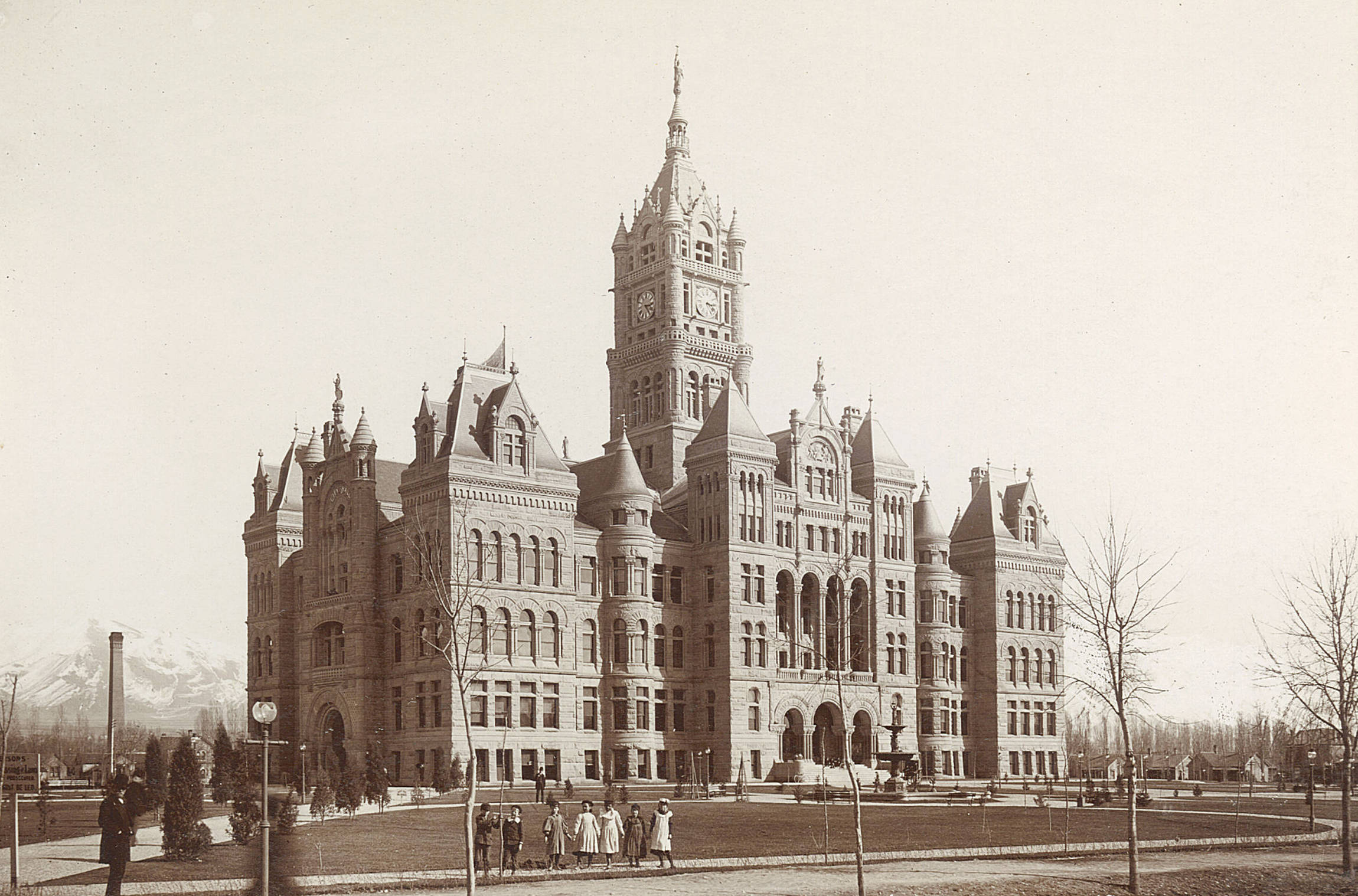 The Salt Lake City and County Building soon after its completion in 1894.